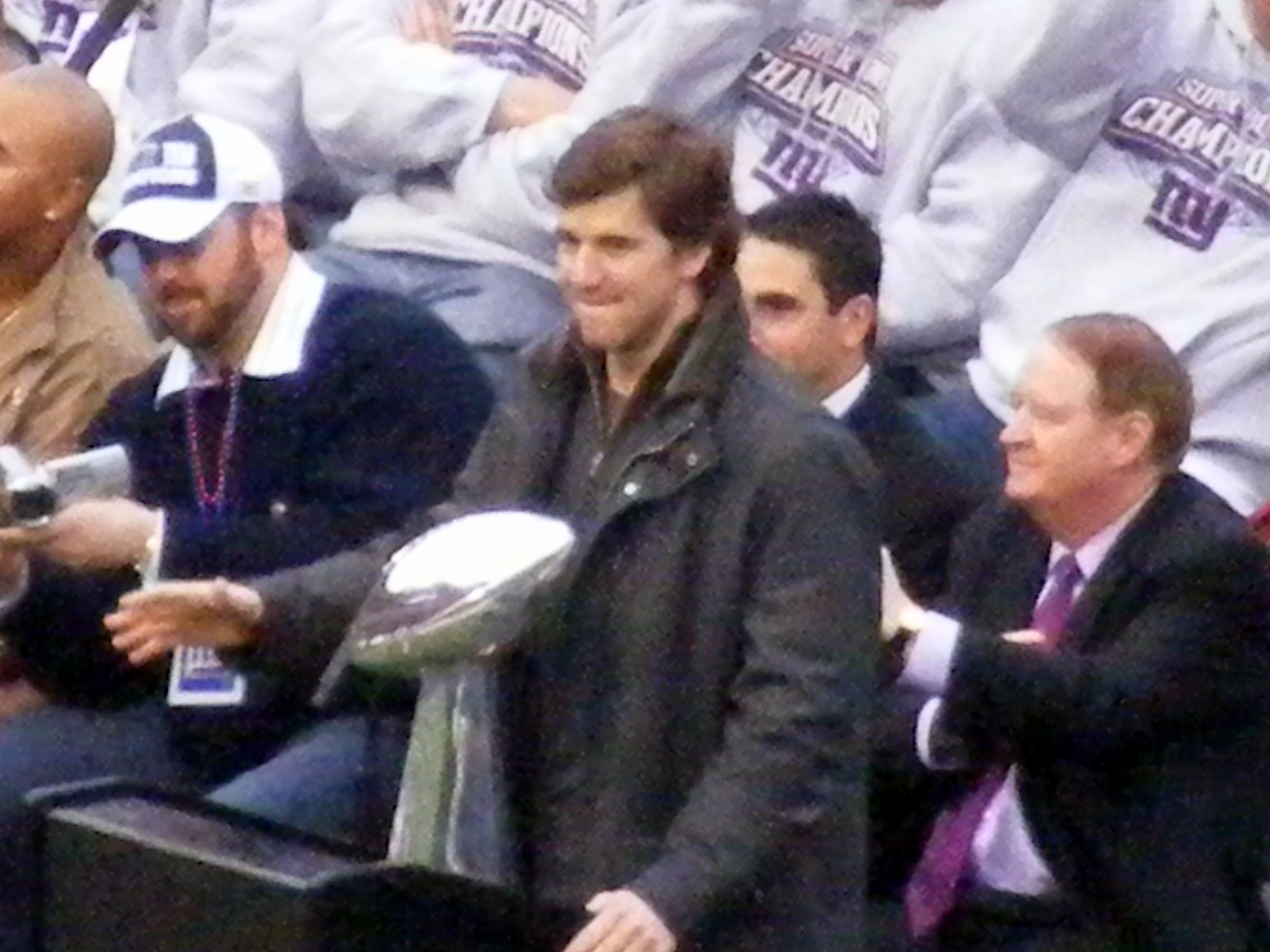 Eli Manning at the Giants Rally after victory in Super Bowl XLIIDSCF5137